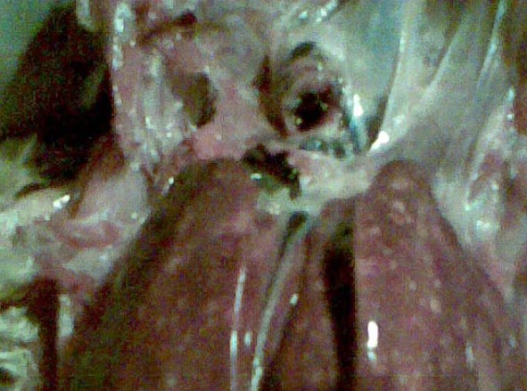 Necrosis foci on liver of a cock in an outbreak of Fowl cholera in a parental flock (Azrou, Morocco) Walon: Taetches di necrôze sol foete d' on cok do mopliyaedje tins d' ene minêye di Colera des poyes